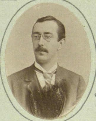 Jaroslav Tkáč (1871–1927), Austrian philologist